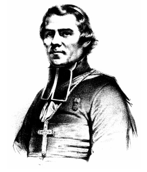 Thomas Gousset